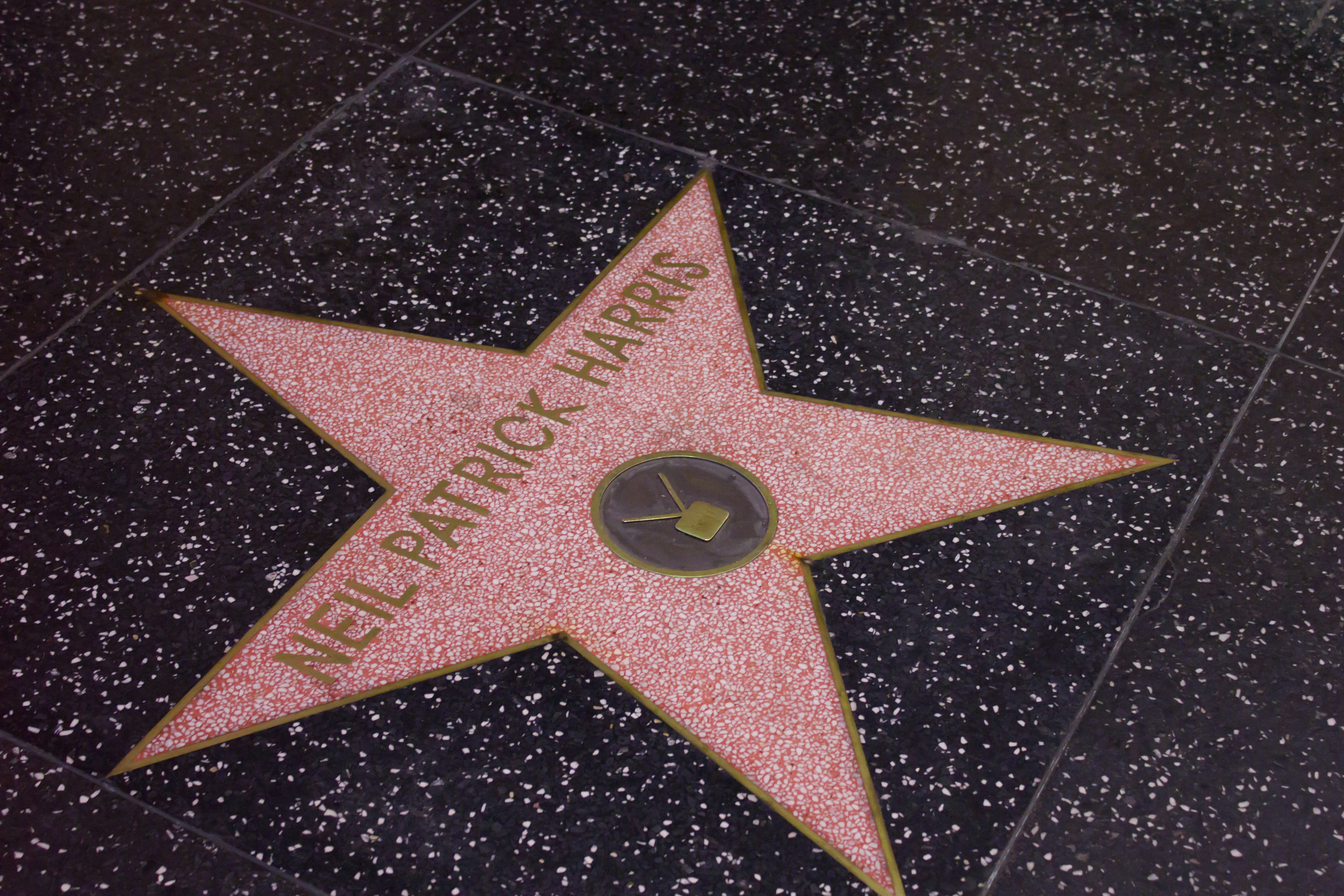 Neil Patrick Harris Walk of Fame Star